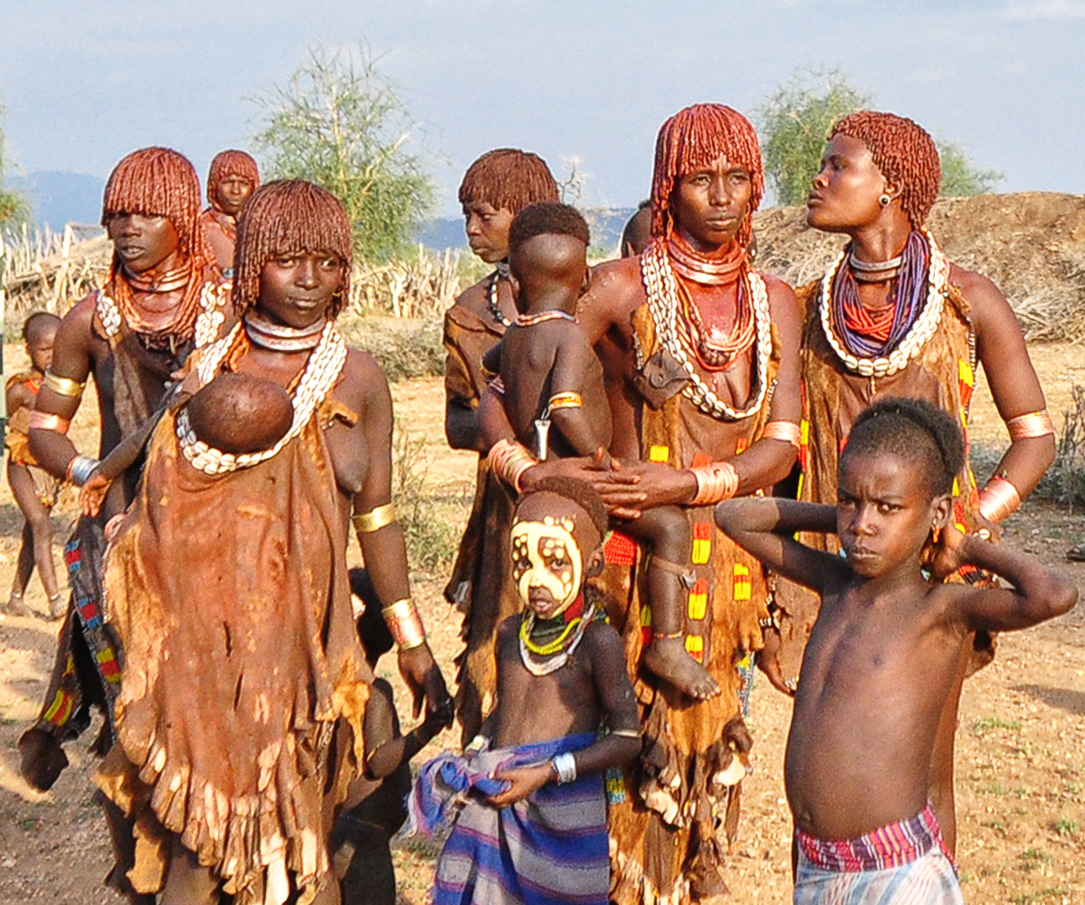 Hamer Tribe, Turmi, Ethiopia